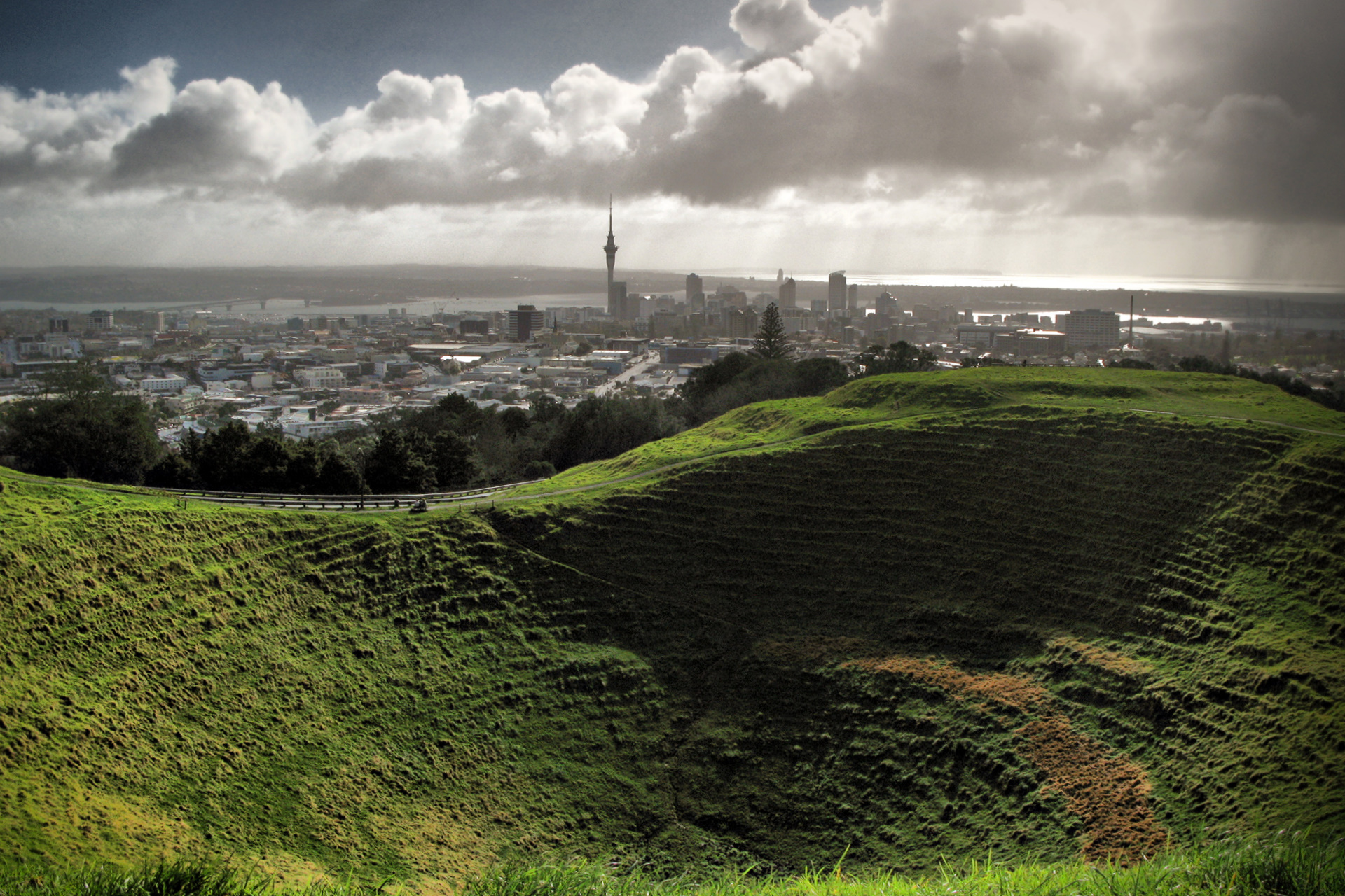 Mount Eden or Maungawhau in Auckland, New Zealand. Photo shows the crater and downtown Auckland in the distance.